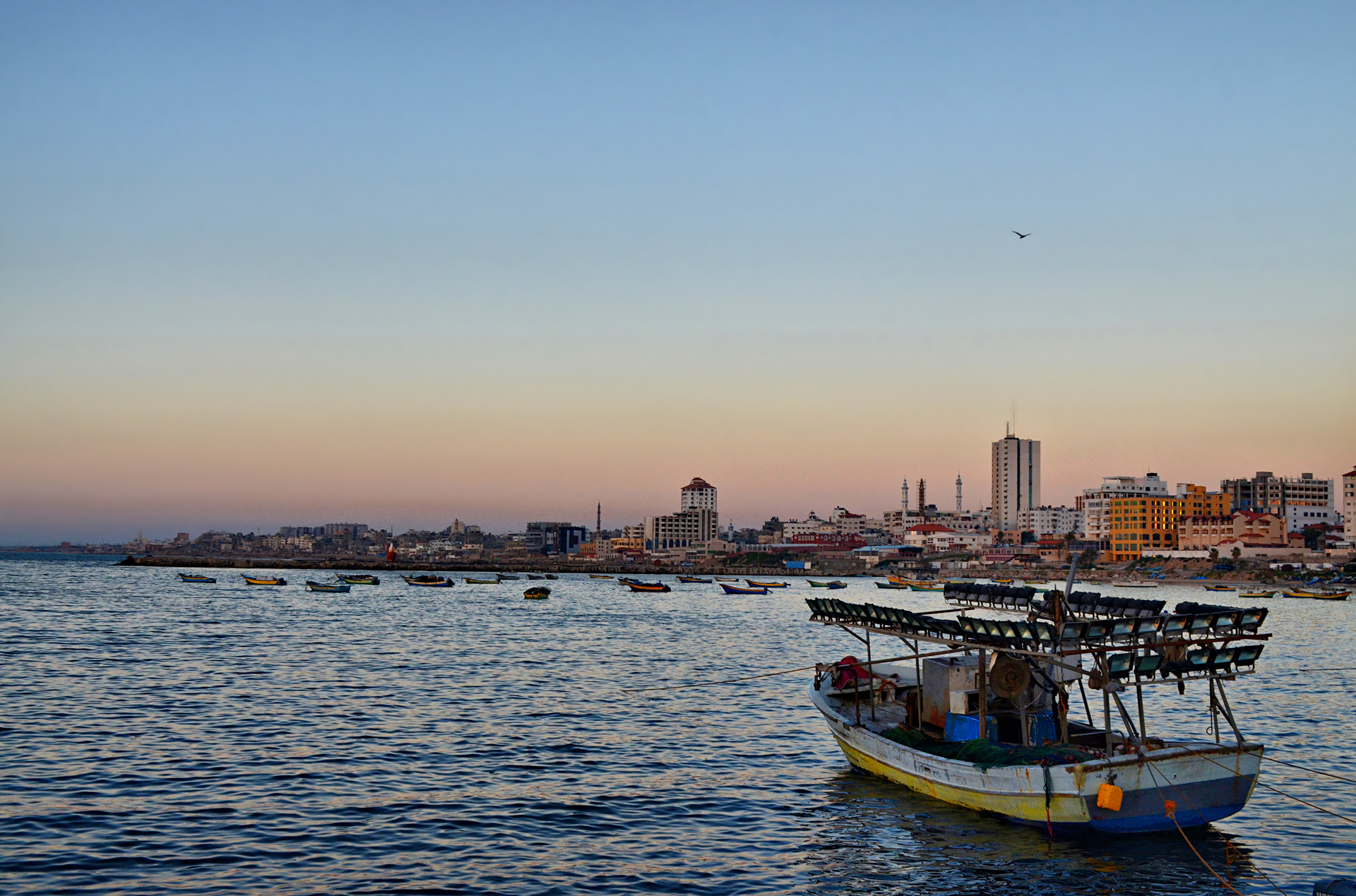 Gaza port